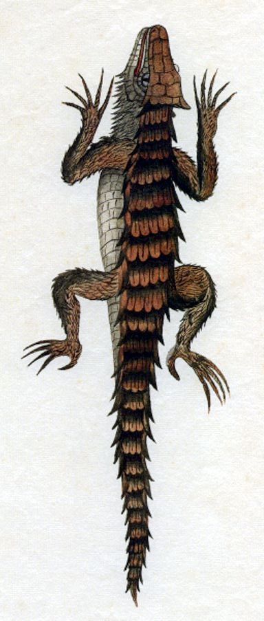 Cordylus cataphractus Boie, 1828 = (Ouroborus cataphractus (Boie, 1828 [Stanley et al. 2011])